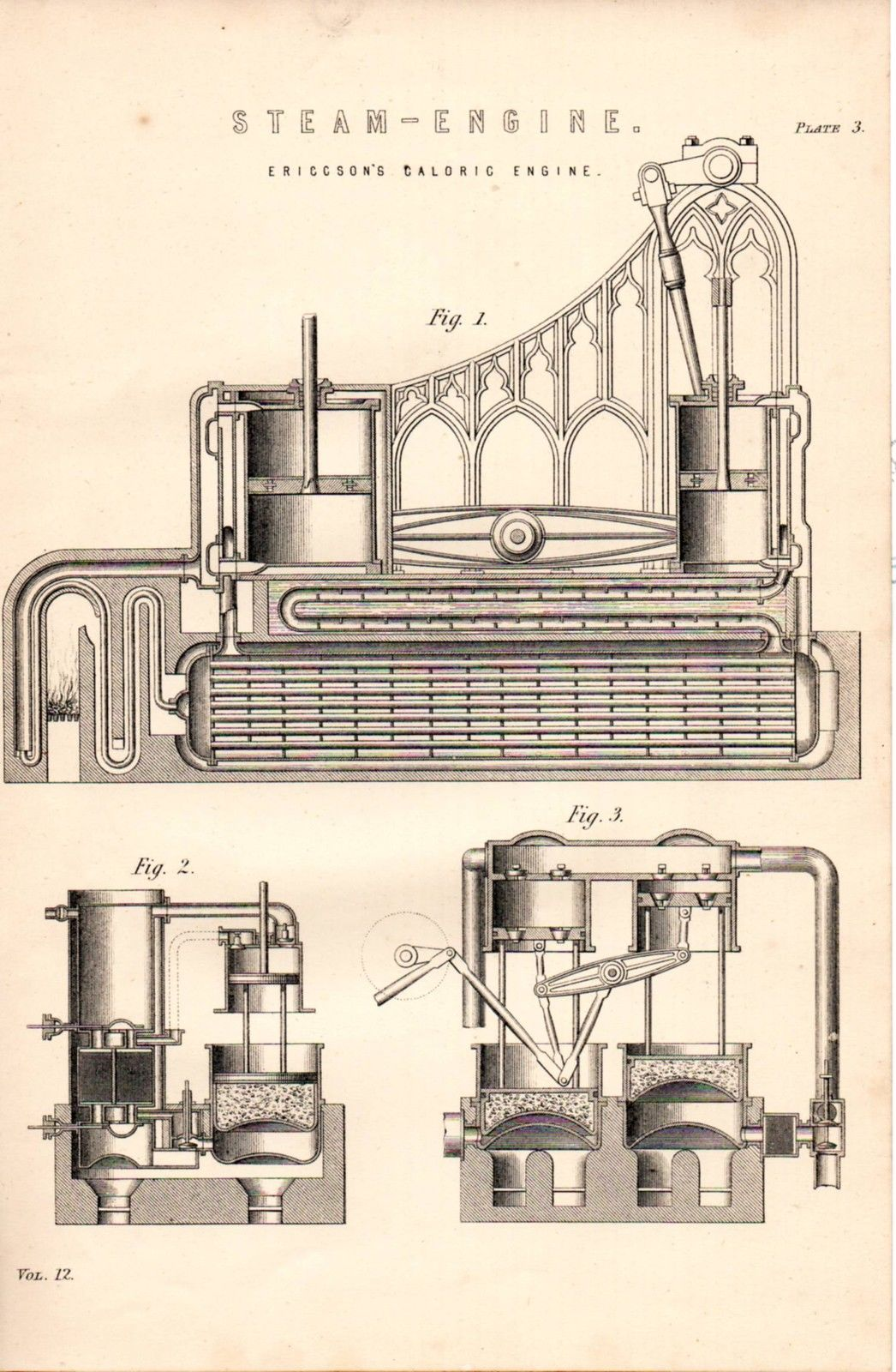 Drawing